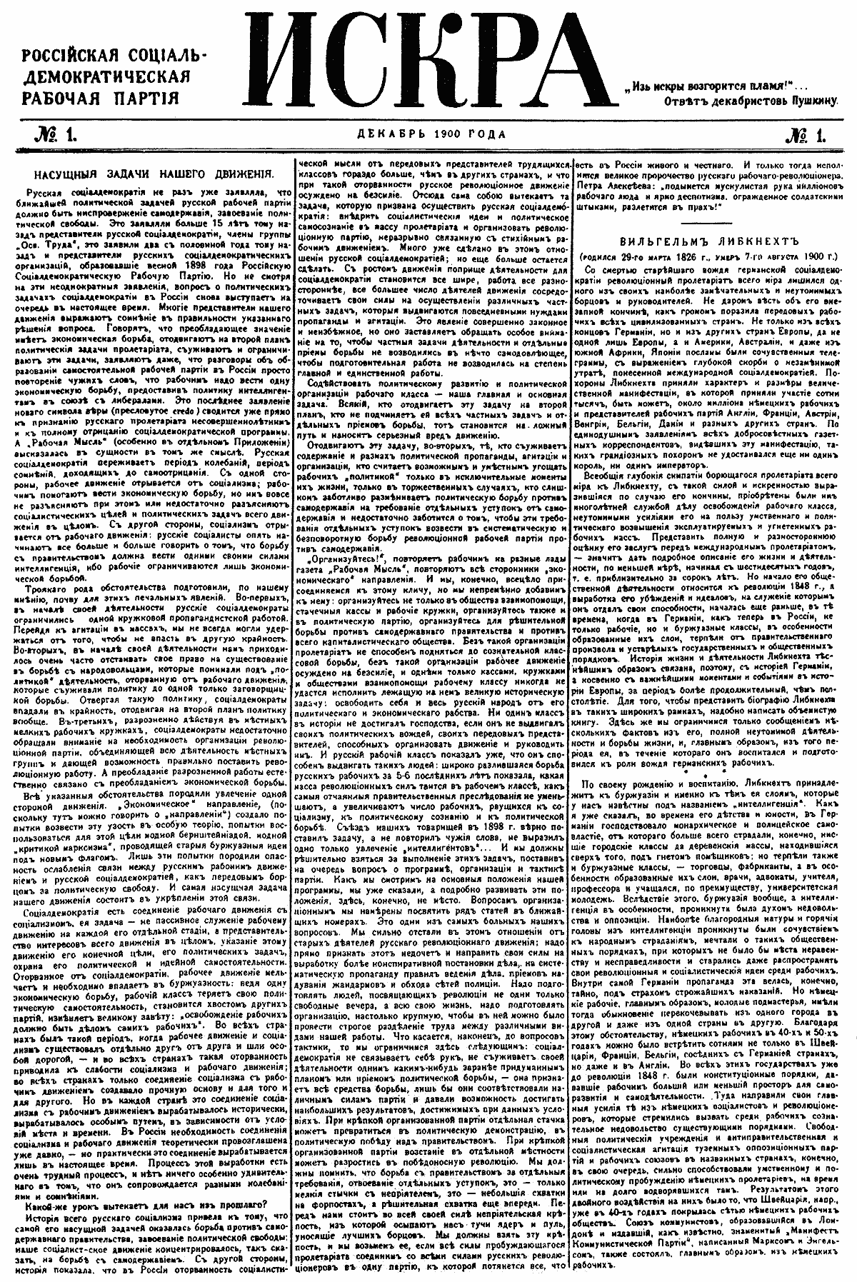 First page of first number newspaper Iskra